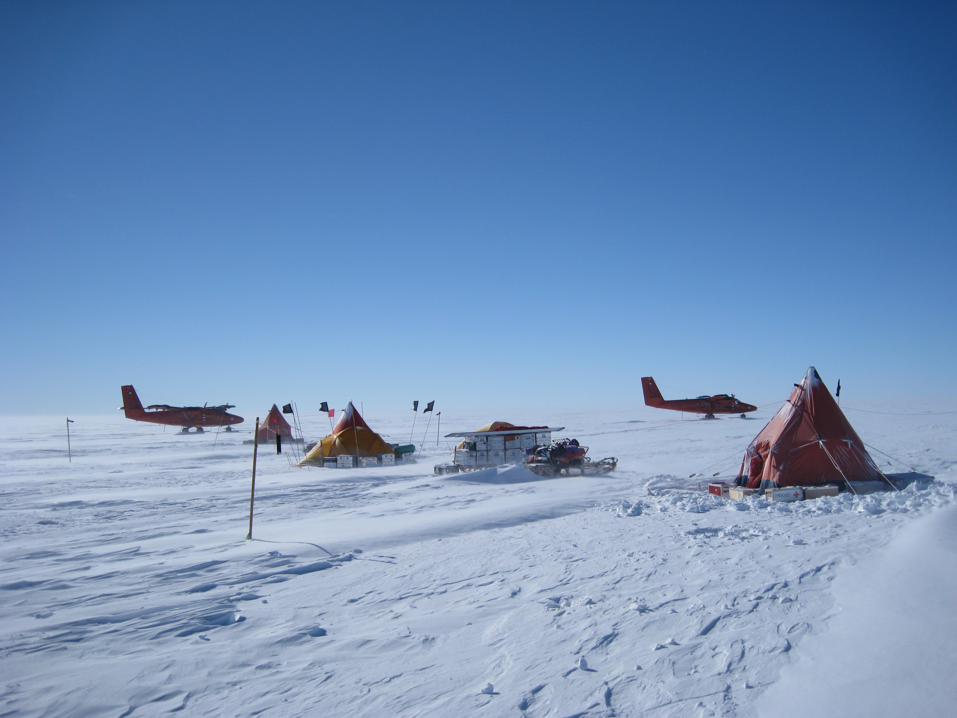 British Antarctic Survey fieldcamp on Pine Island Glacier